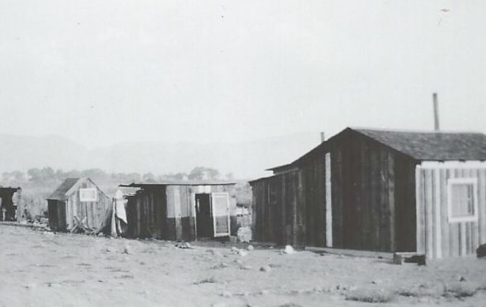 The photo above from the RSIC Archives and Records Department shows the typical homes on the Reno-Sparks Indian Colony in the 1900s.